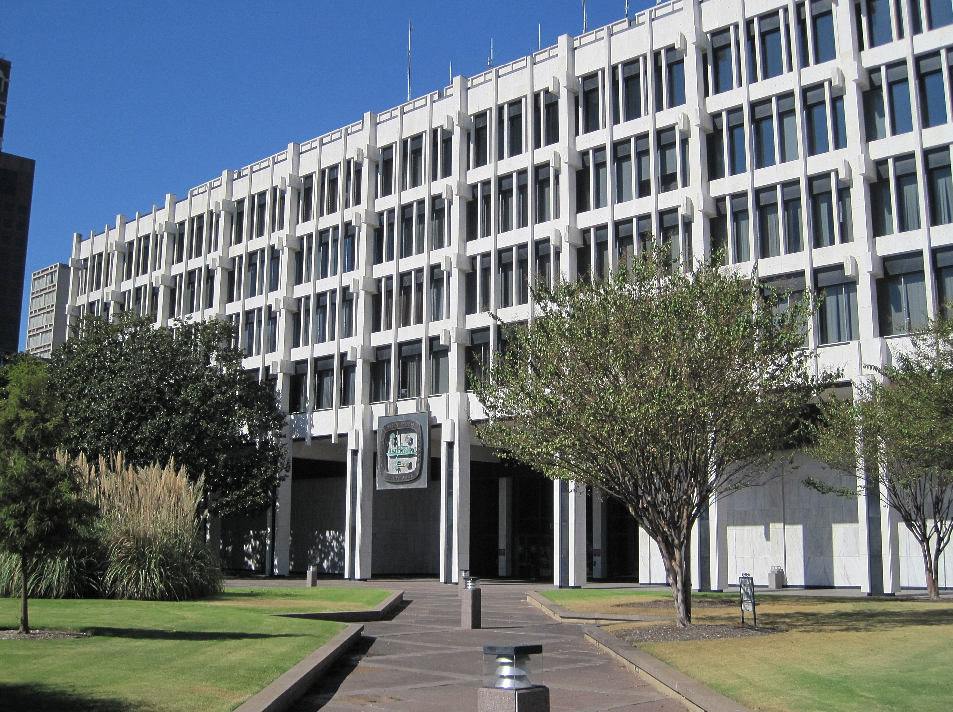 City Hall on Main Street in Downtown Memphis, Tennessee.